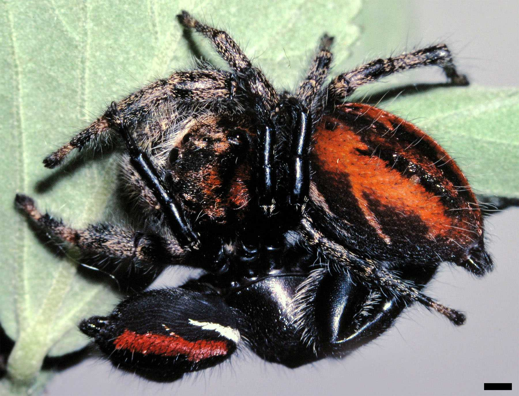 Mating male and female Phidippus clarus jumping spiders from from Big Prairie, Ocala National Forest, Marion County, Florida, USA